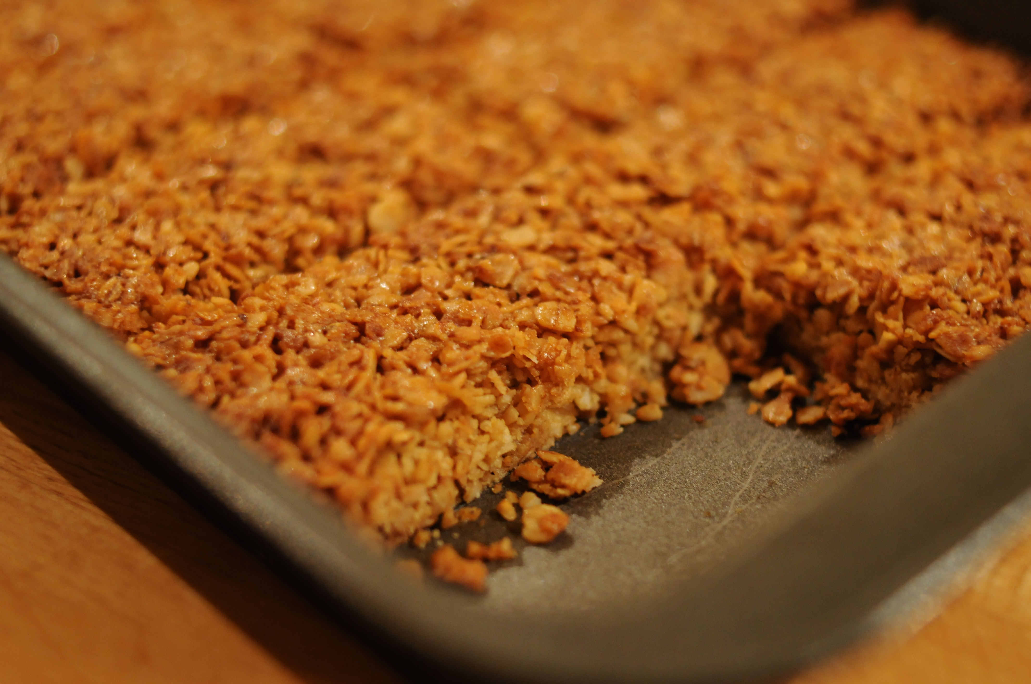 Flapjacks in a baking tray.